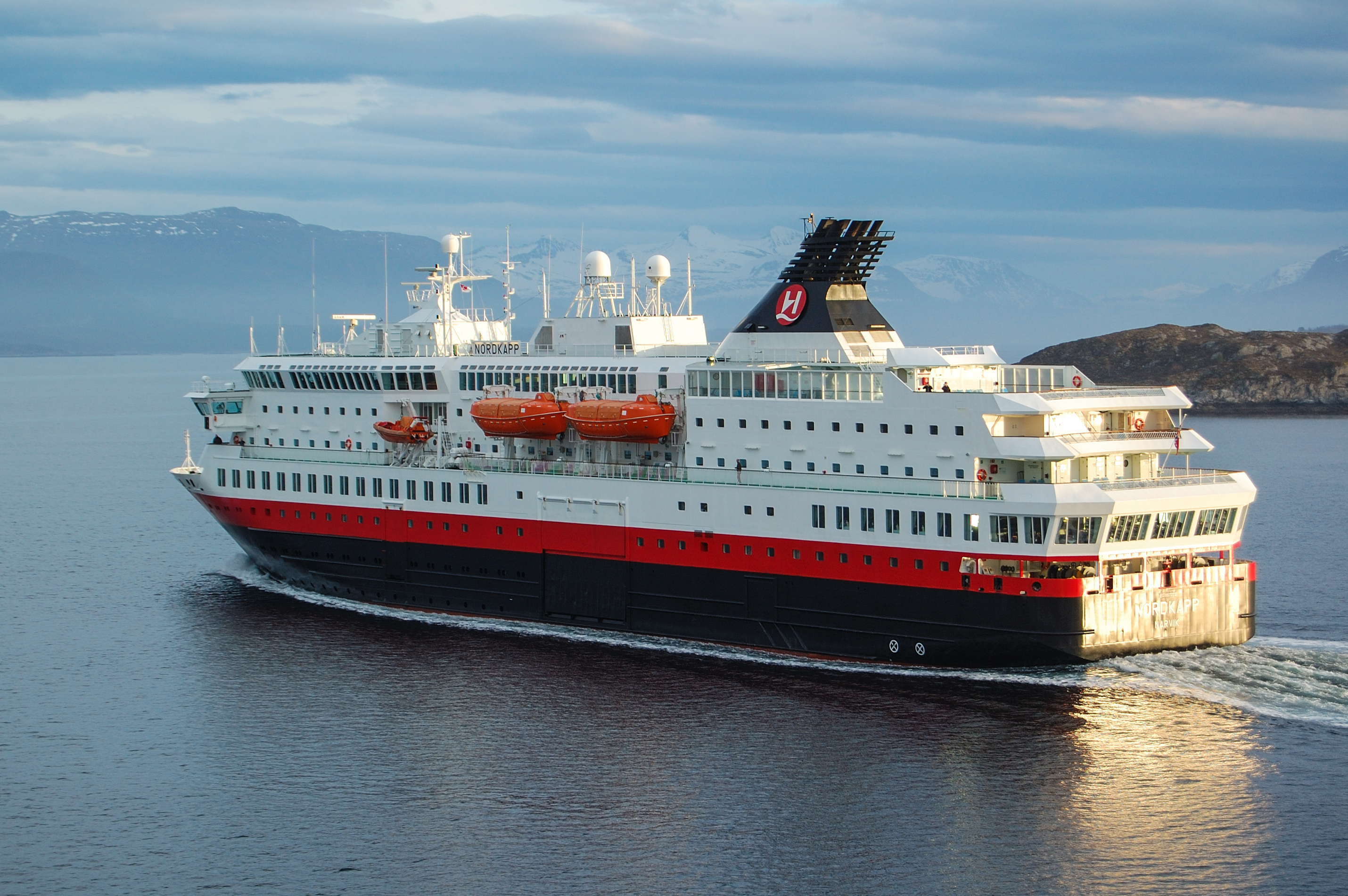 Norwegian ship MS Nordkapp in 2009.